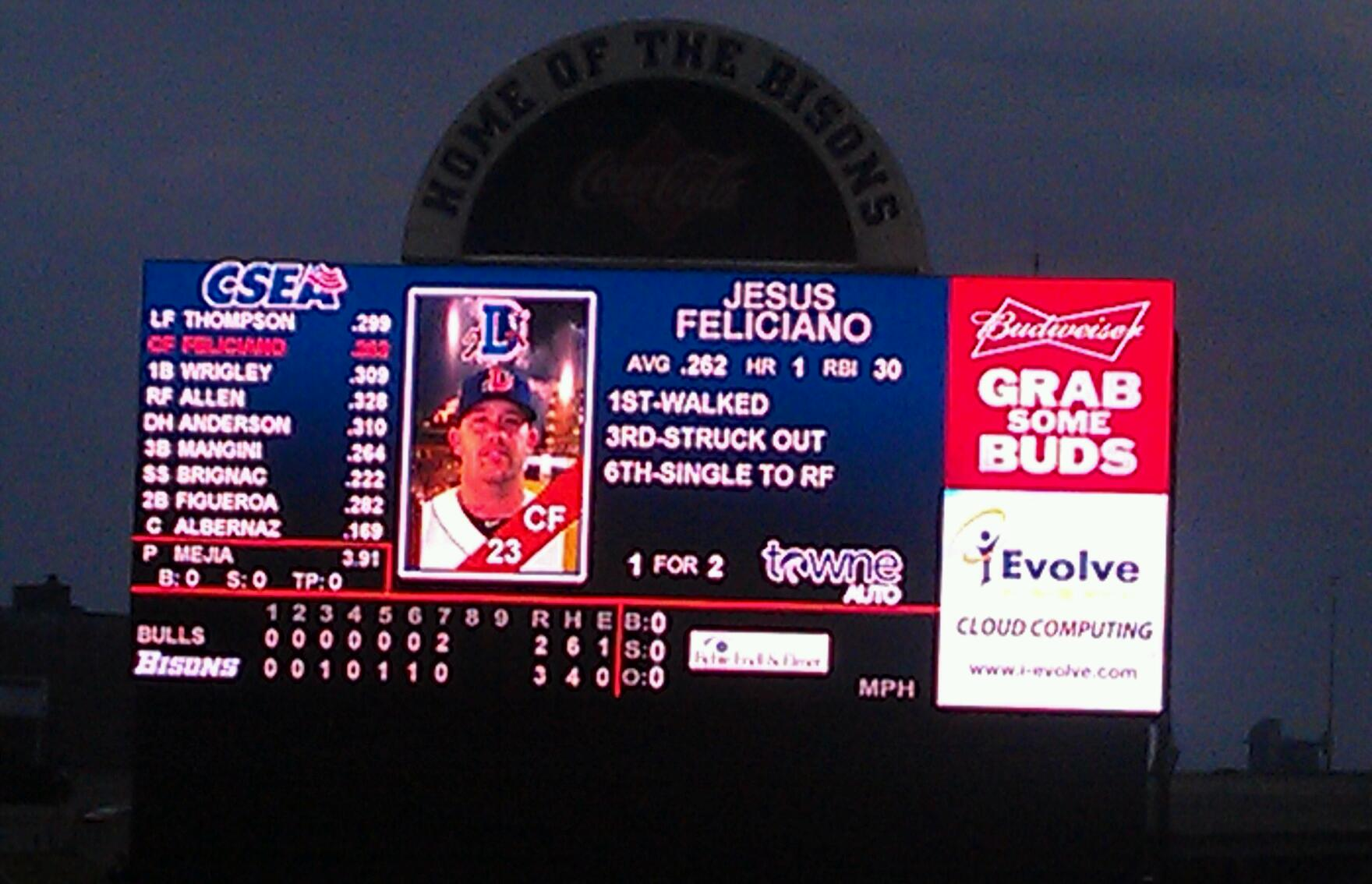 Jesús Feliciano on the Scoreboard at Coca-Cola Field in Buffalo, New York on July 3, 2012.